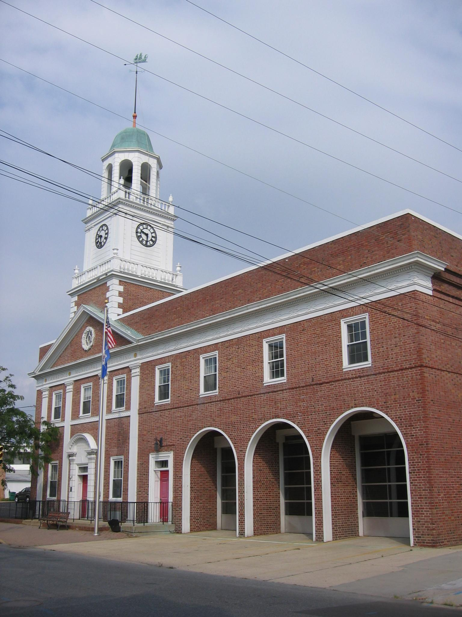 A view of the Cambridge Municipal Building at Muse Street & Gay Street facing east.